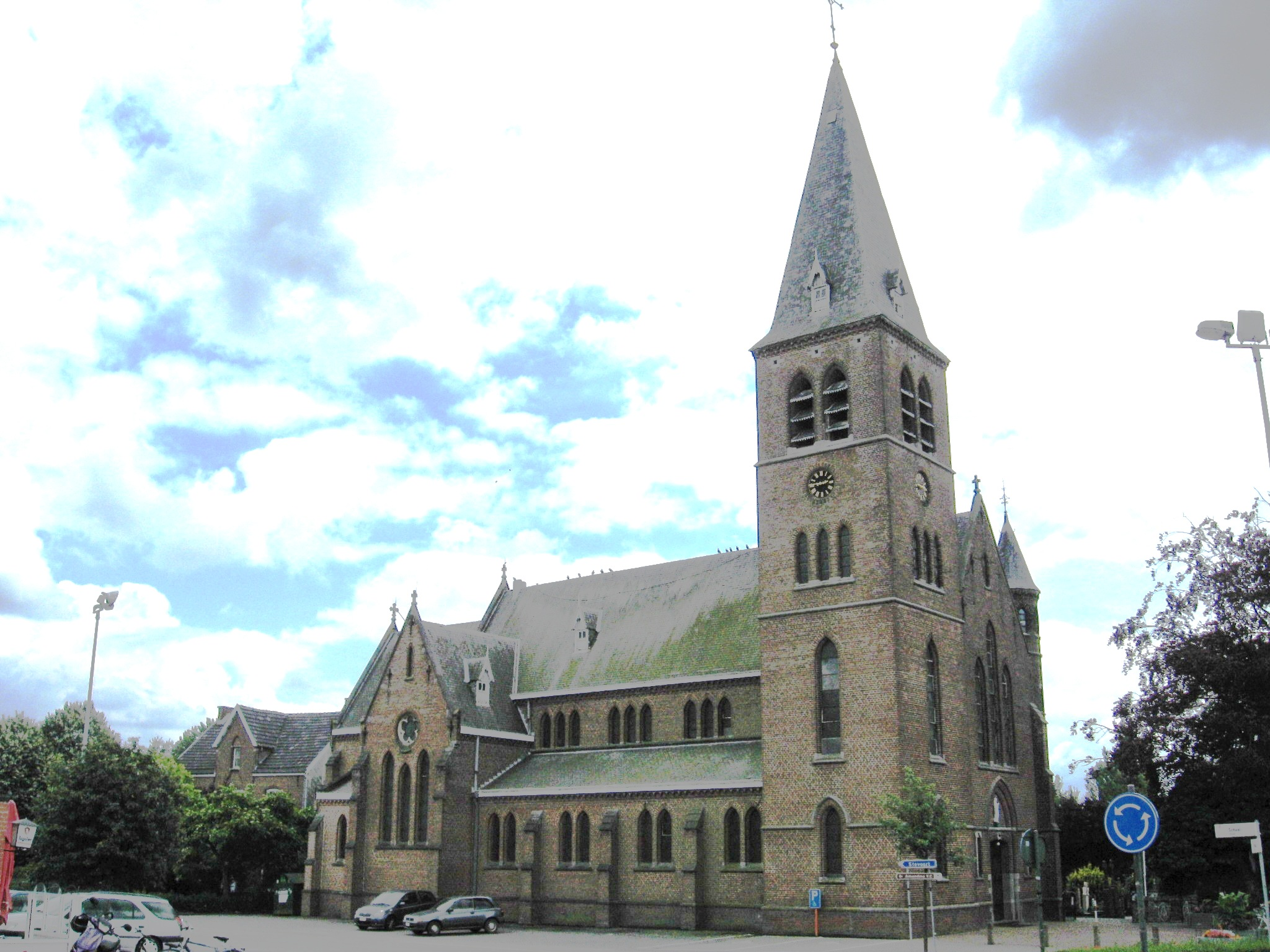 Church of the Immaculate Conception of Our Lady in Herk-de-Stad (Schakkebroek), Limburg, Belgium